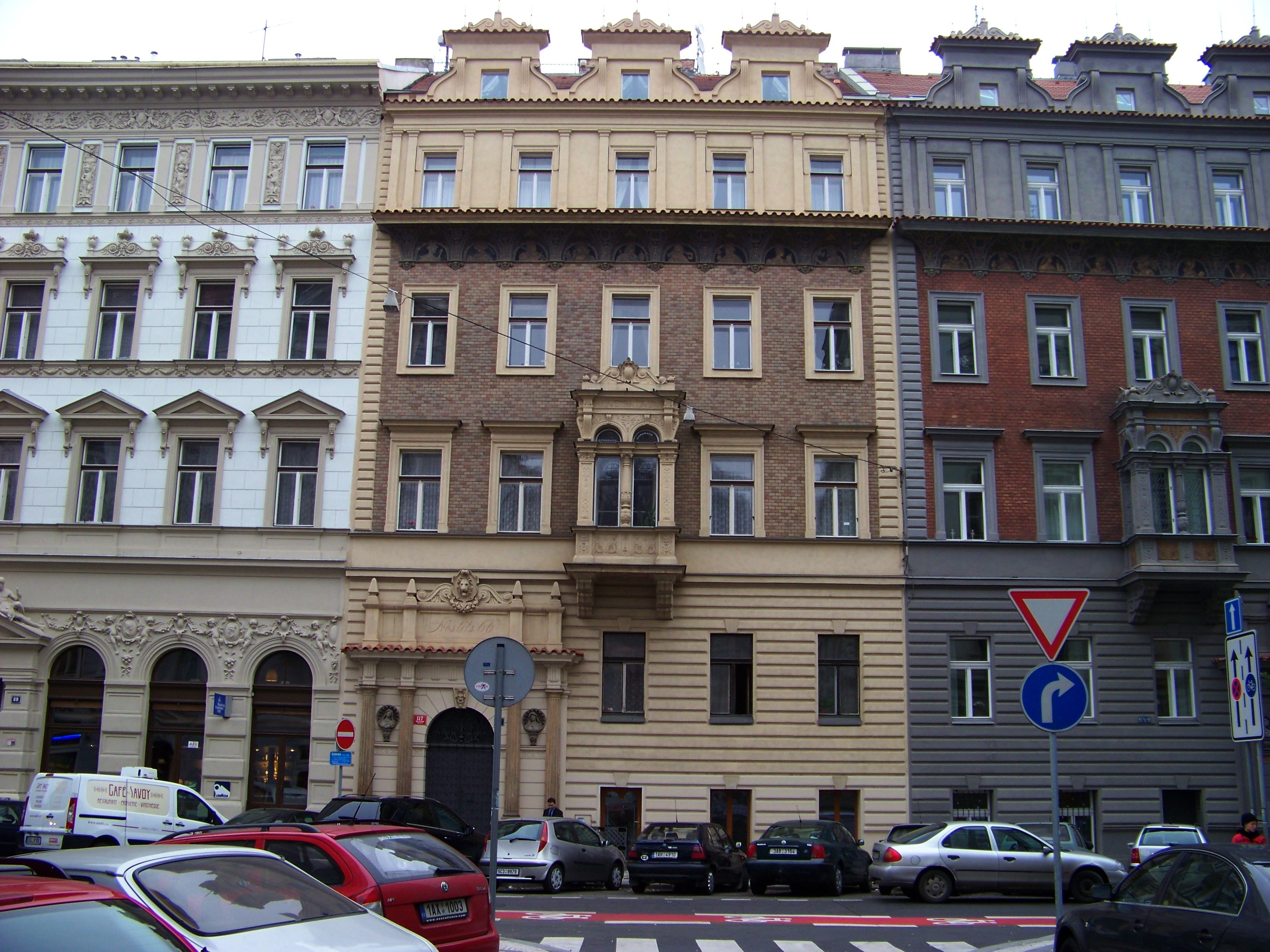 Prague-Malá Strana, the Czech Republic. Zborovská 68, 66, 64.